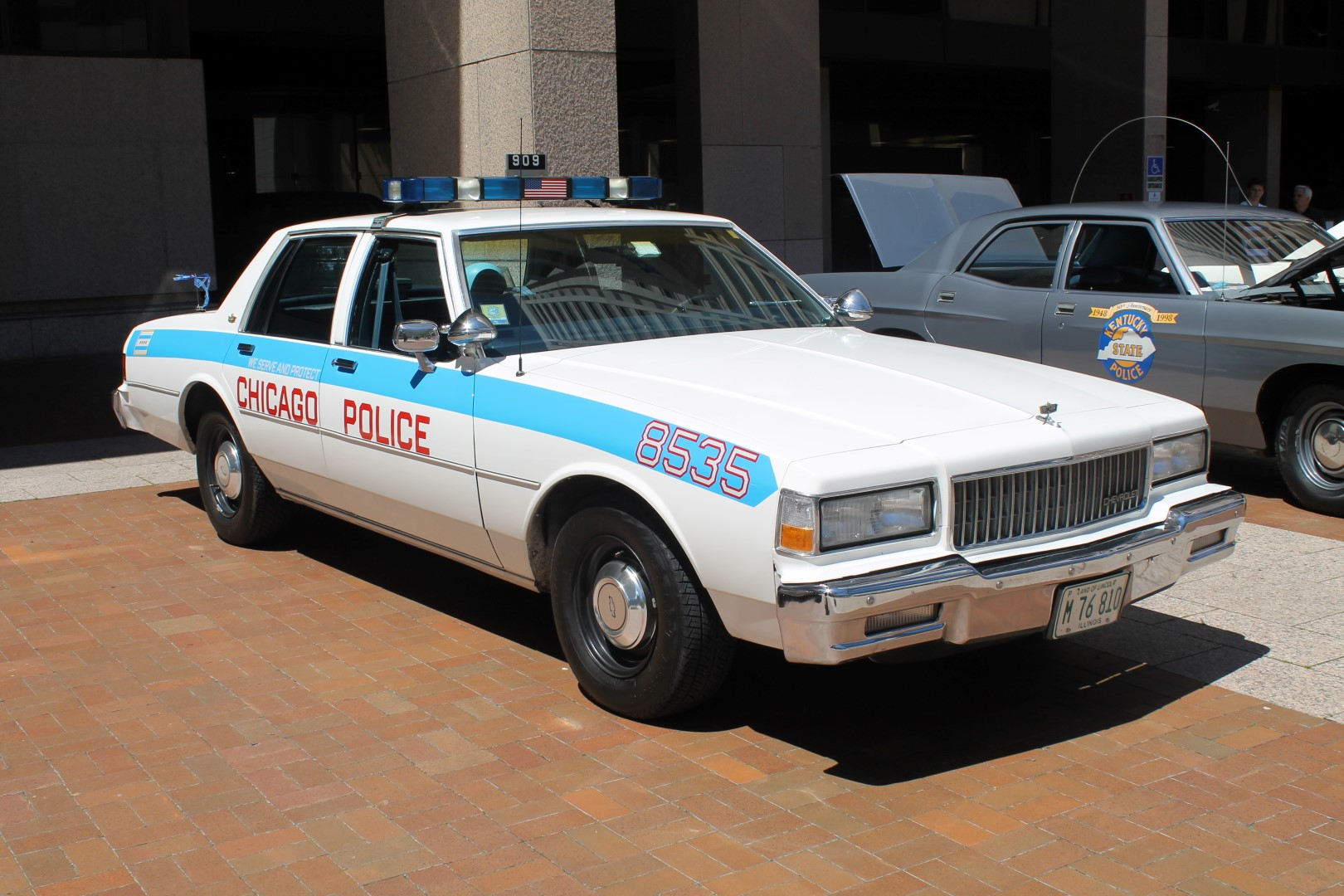 Cleveland Police Museum Vintage Police Car Show